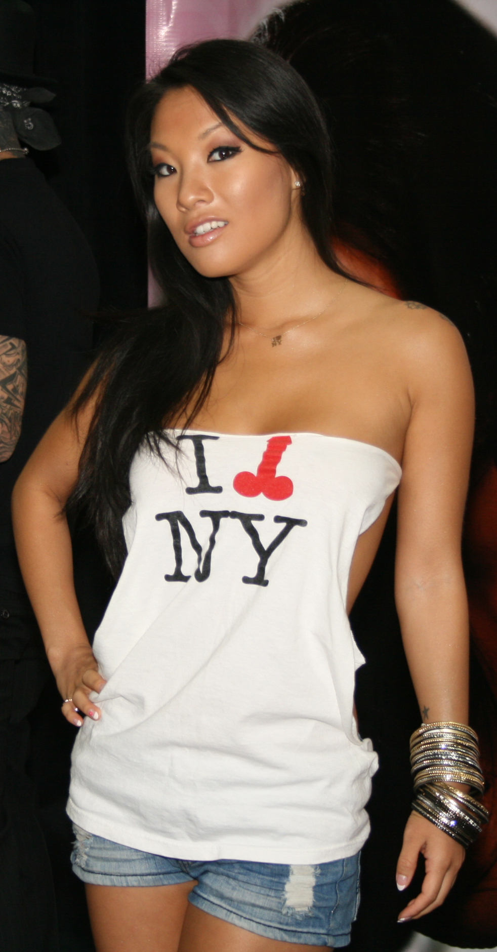 Asa Akira at Exxxotica New York, 2009.